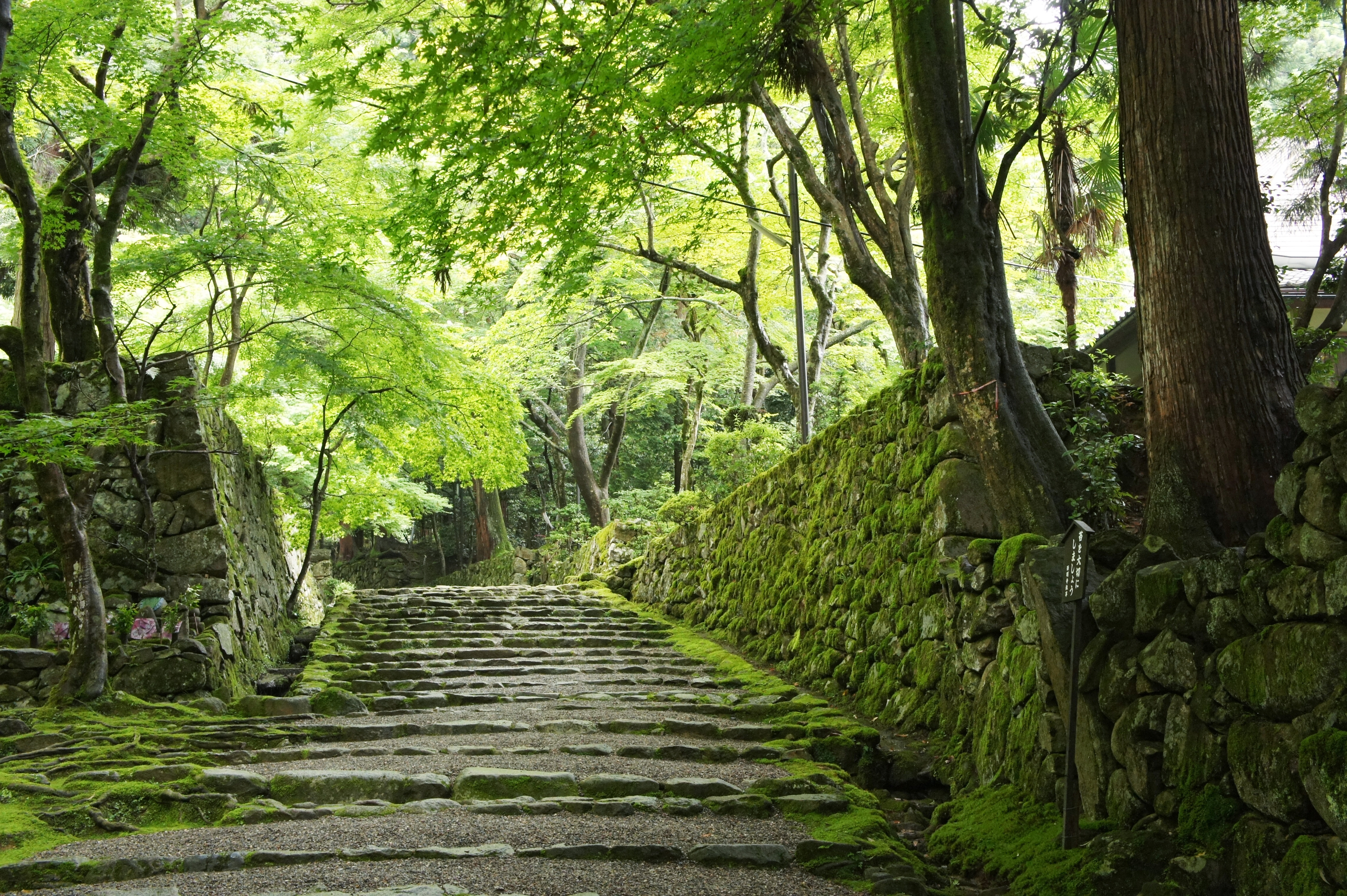 Saimyoji in Kora, Shiga prefecture, Japan